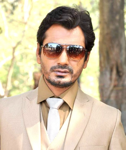 Nawazuddin Siddiqui during the mahurat of Black Currency